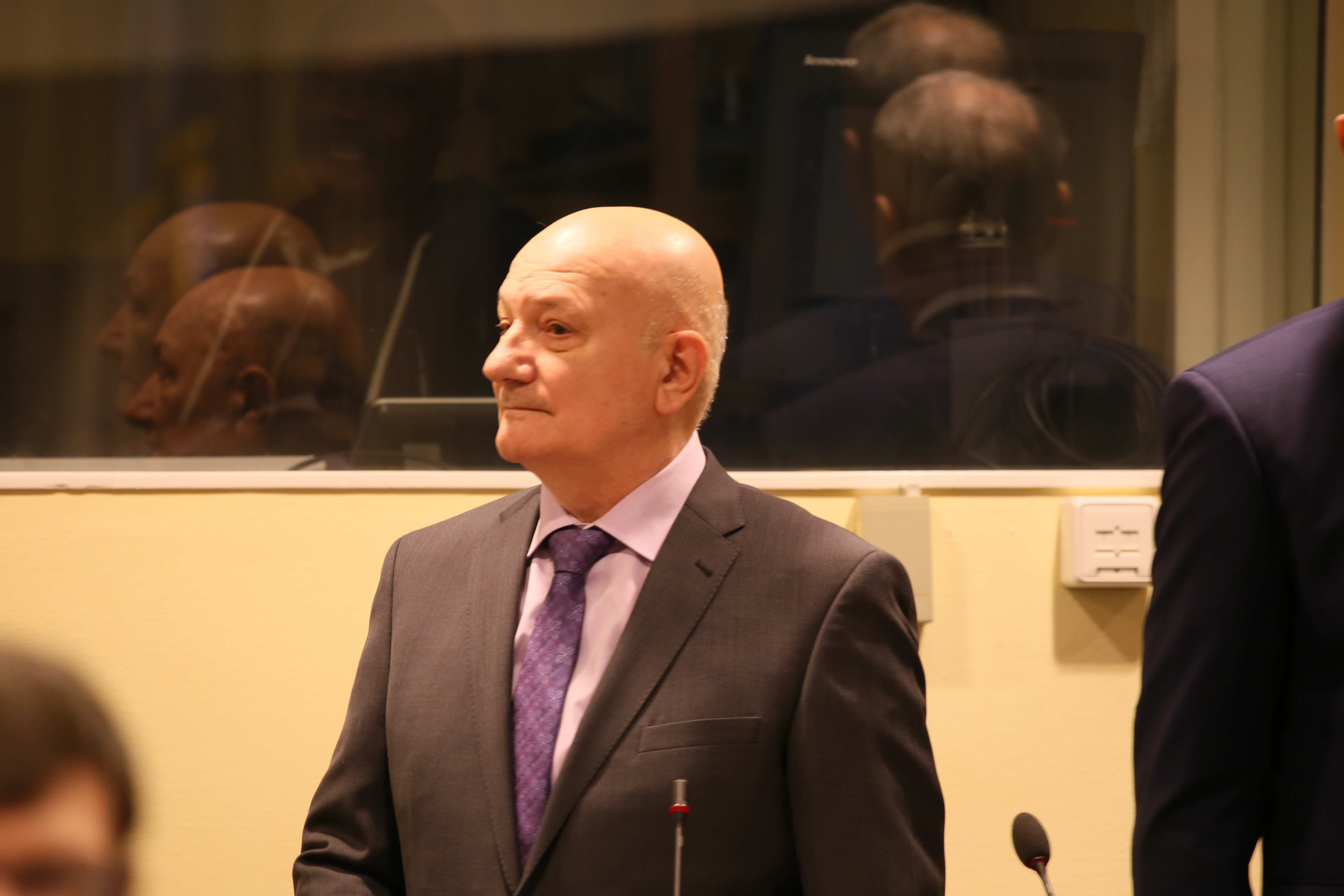 Milivoj Petković, one of the six Defence appellants in the Prlić case, at the Appeals Judgement.